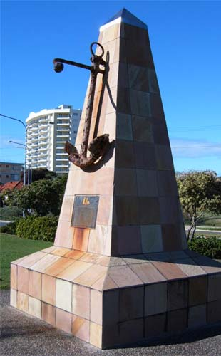 Schooner Coolangatta - Anchor and memorial of the wreck. (See also picture of planking from the wreck.) The ship gave its name to the town Coolangatta. The site of the wreck is along the coast to the west of the headland, and is marked by the monument (File:AU Schooner Coolangatta wrk.jpg), here 28°09′59″S 153°31′24″E / 28.166353°S 153.523293°E. A piece of planking (File:AU Schooner Coolangatta plk.jpg) from the wreck is in a park to the east of the headland, at the corner of Marine Parade and McLean Street. You can just make it out on Google Maps 28°10′00″S 153°32′09″E / 28.166797°S 153.535794°E